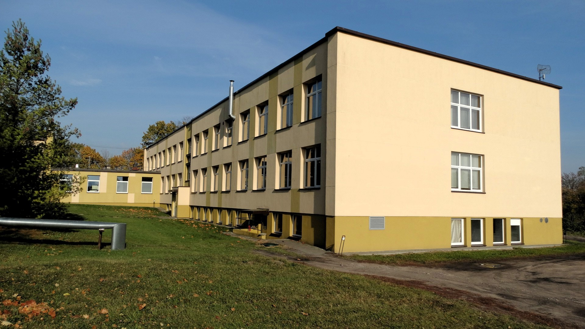 Gymnasium, Krokialaukis, Alytus district, Lithuania